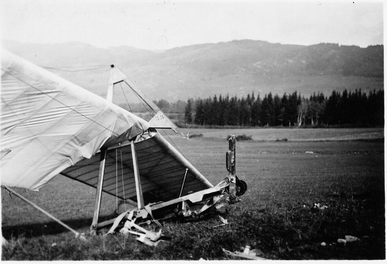 A Grunau 9 glider after crash landing. Originally photographed by Werner Herbert Milling before WW 2nd.